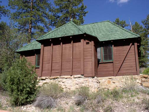 Standard tourist cabin in Bryce Canyon National Park, Utah, USA